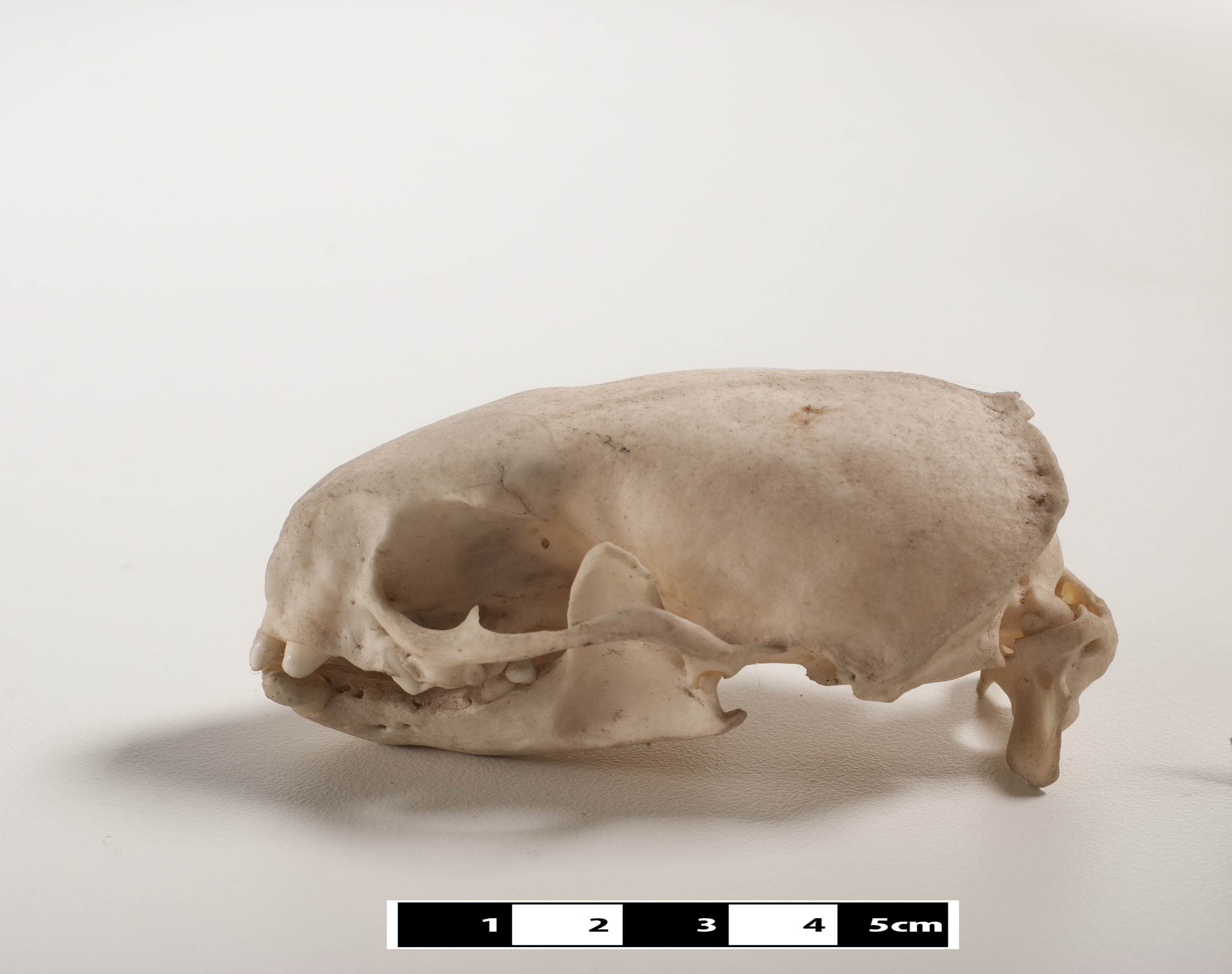 Specimen of ferret skull prepared by the bone maceration technique and on display at the Museum of Veterinary Anatomy, FMVZ USP.This file was published as the result of a partnership between the Museum of Veterinary Anatomy FMVZ USP, the RIDC NeuroMat and the Wikimedia Community User Group Brasil. This GLAM project is reported.Photography: Museum of Veterinary Anatomy FMVZ USPAuthor: Wagner Souza e Silva